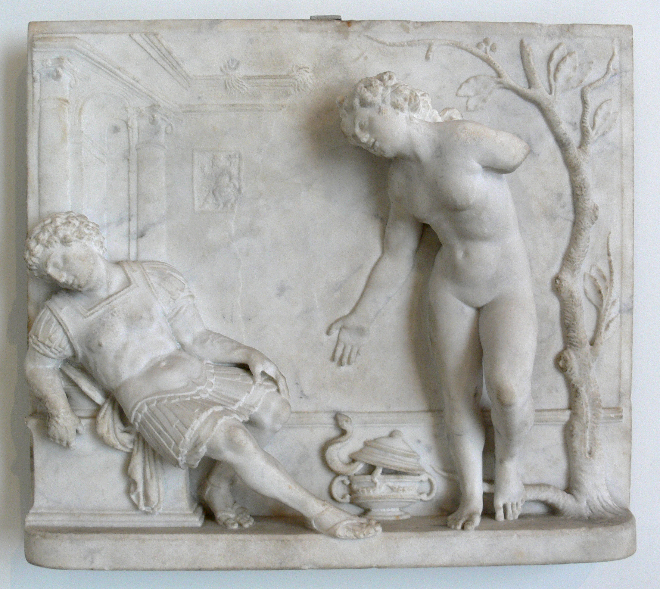 Giovanni Maria Mosca: Antony and Cleopatra, Venice, c. 1520/1530, marble. Skulpturensammlung (Inv. no. 2/58, acquired in 1958), Bode-Museum, Berlin.